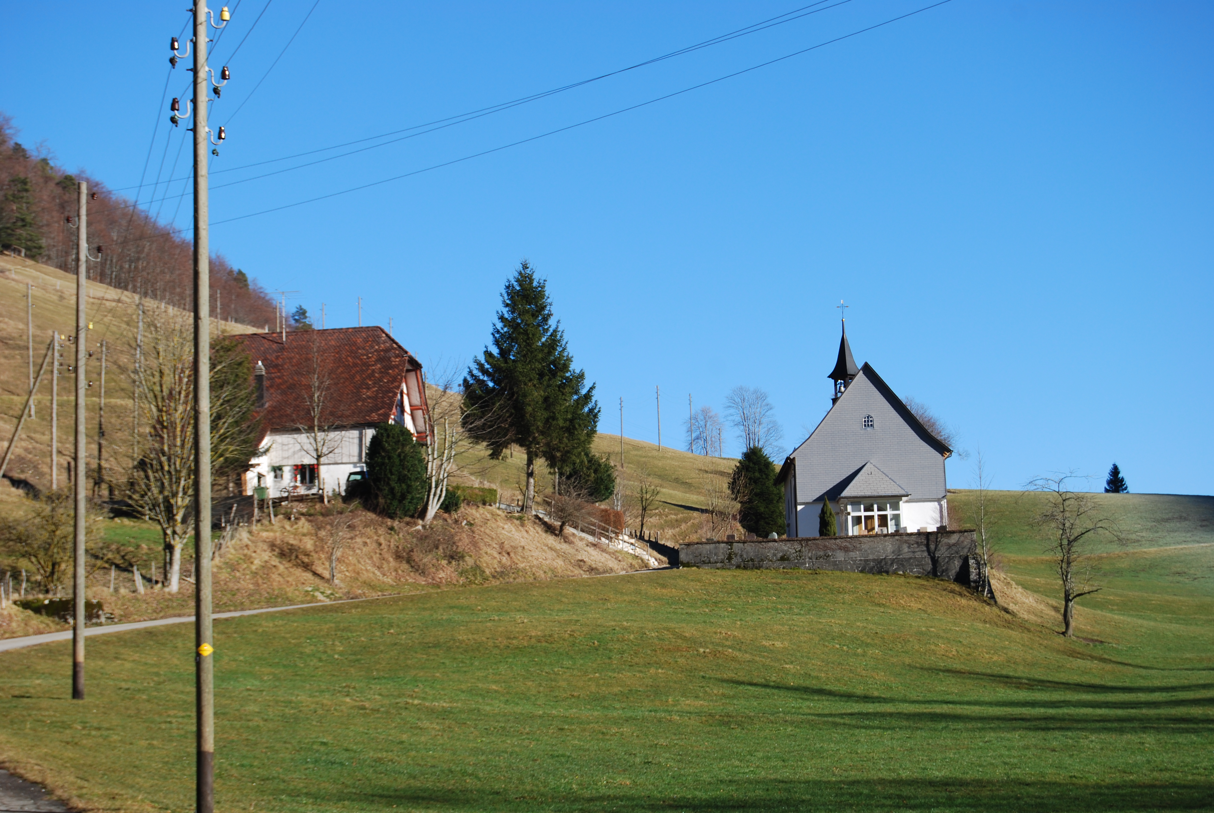 Church of Gänsbrunnen, canton of Solothurn, Switzerland